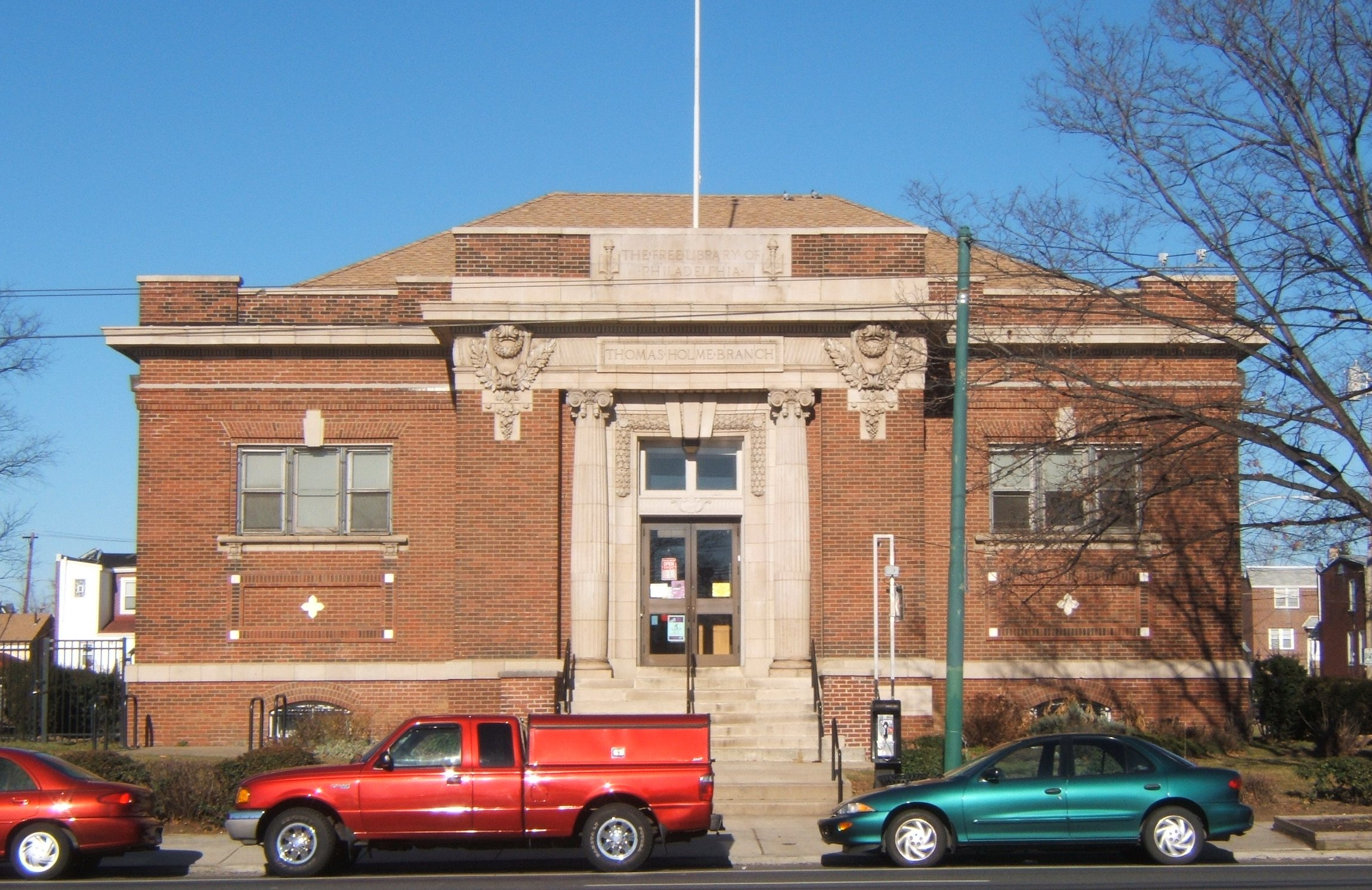 Free Library of Philadelphia - Holmesburg Branch Opened on June 26, 1907. Land a gift of the Lower Dublin Academy, building a gift of Andrew Carnegie. 7810 Frankford Avenue Philadelphia, PA 19136-3013